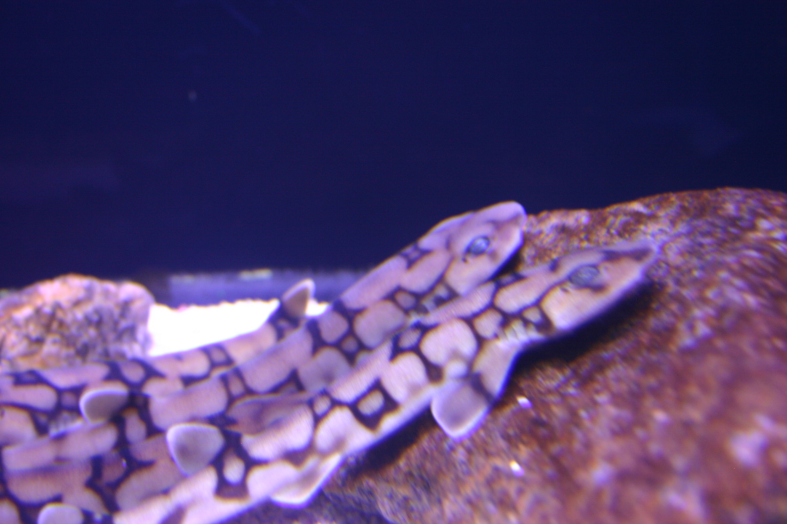 Juvenile chain catsharks (Scyliorhinus retifer) at the Virginia Aquarium